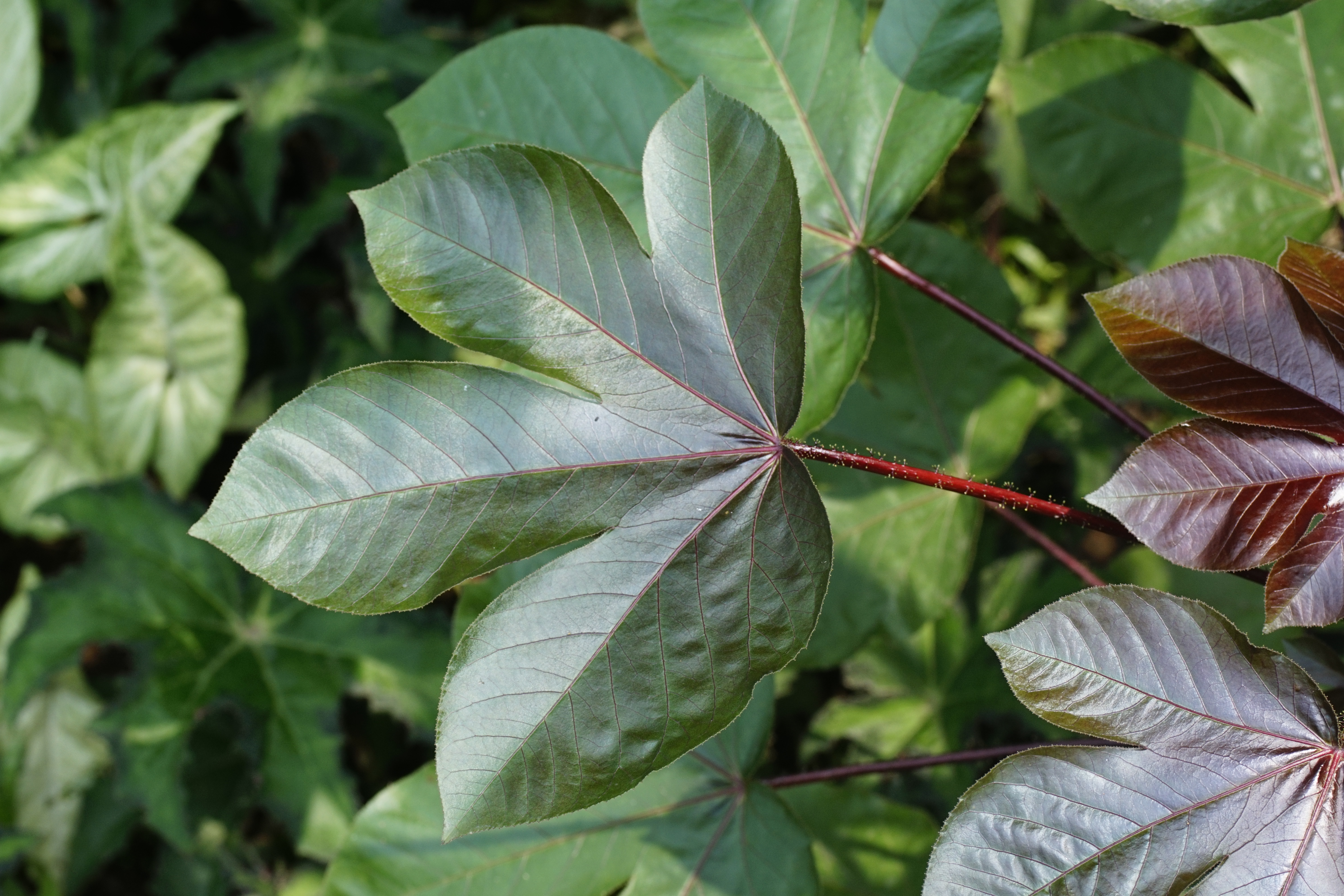 Jatropha gossypifolia